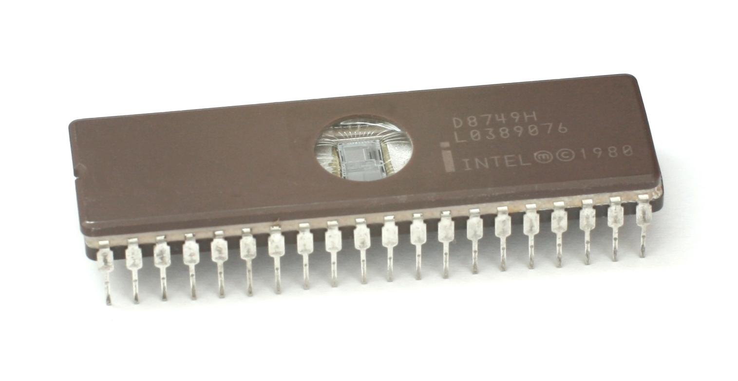 MCU Intel 8749 (MCS-48)